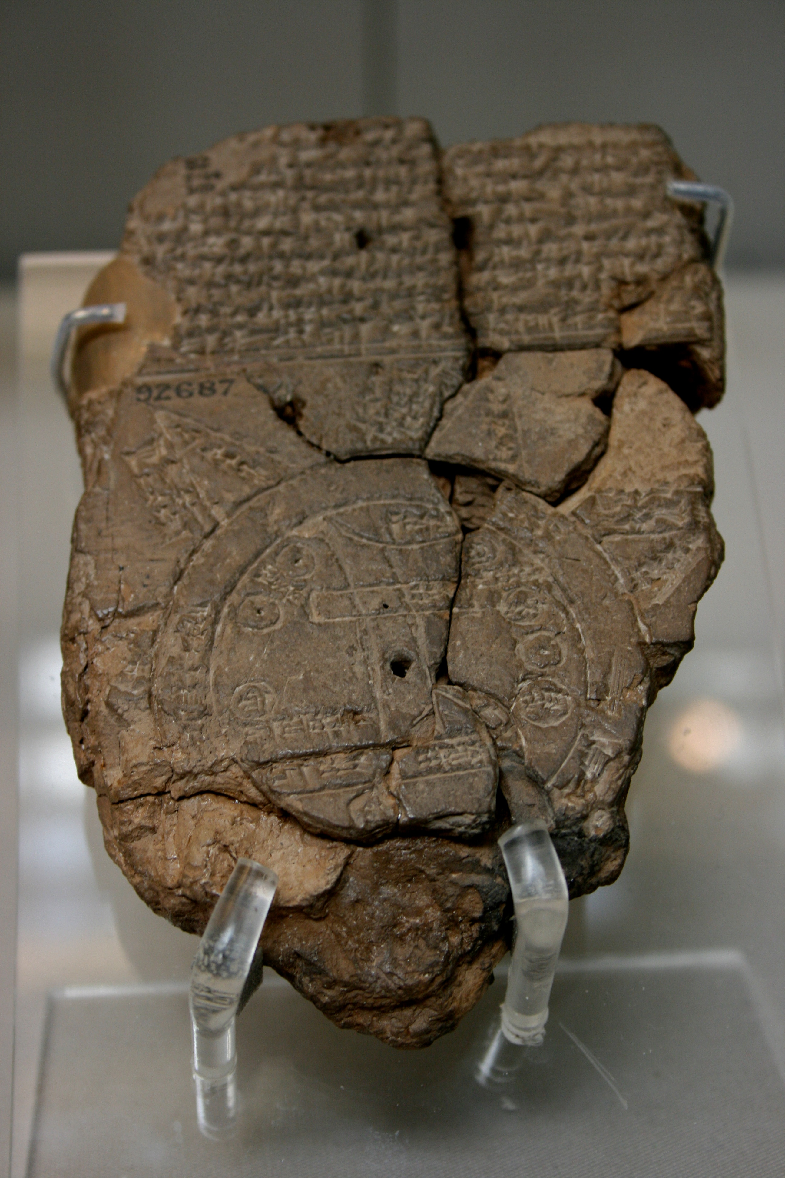 Map of the world. About 700-500 BC. Probably from Sippar. ME 92687. In the British Museum.